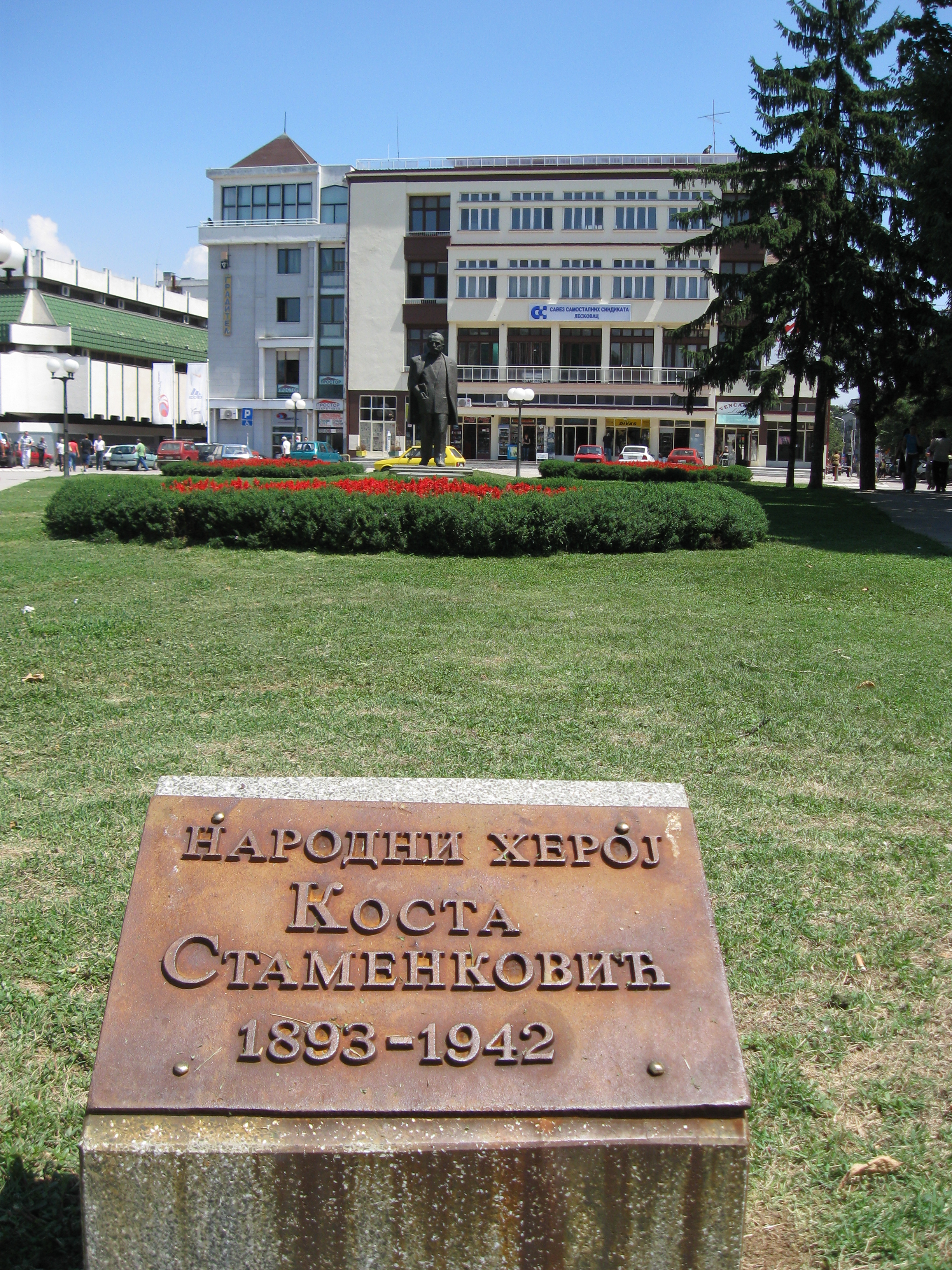 City Park Kosta Stamenkovic Monument